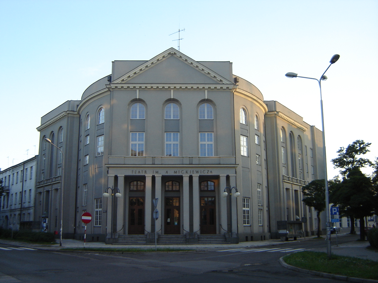 Theater in Częstochowa